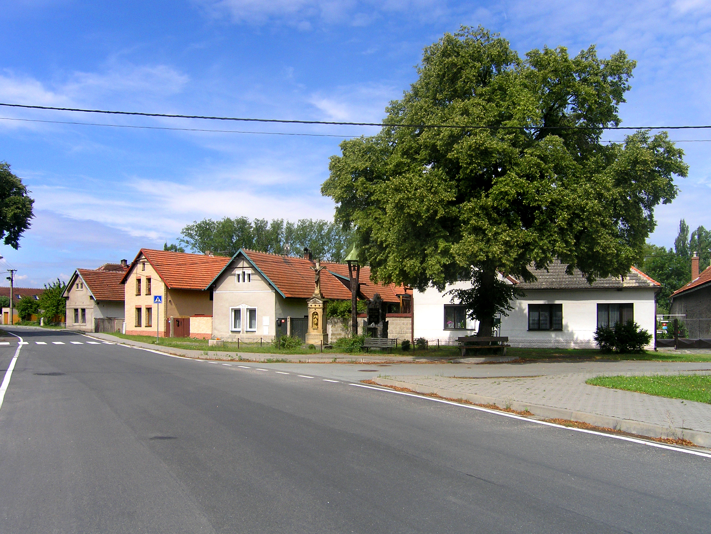 Common in Dománovice, Czech Republic